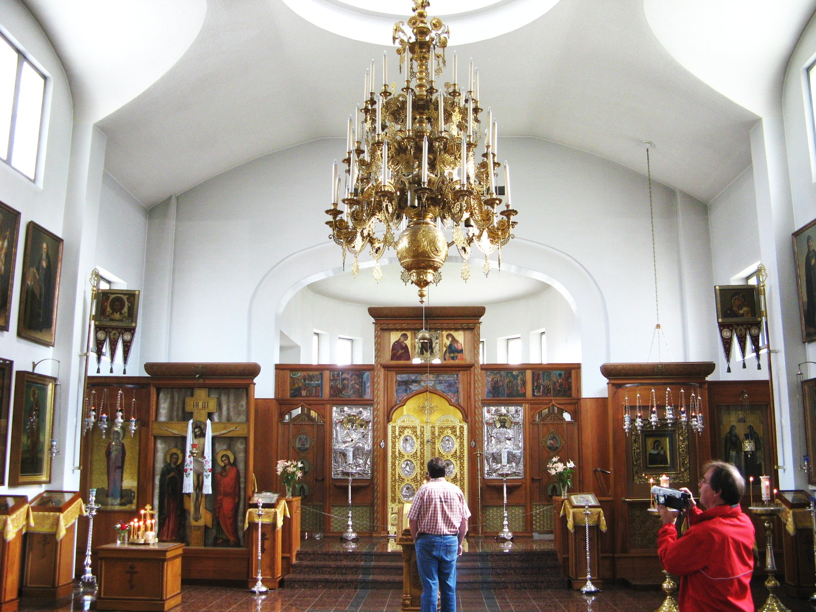 Interior of the Main church of the New Valamo monastery in Heinävesi, Finland